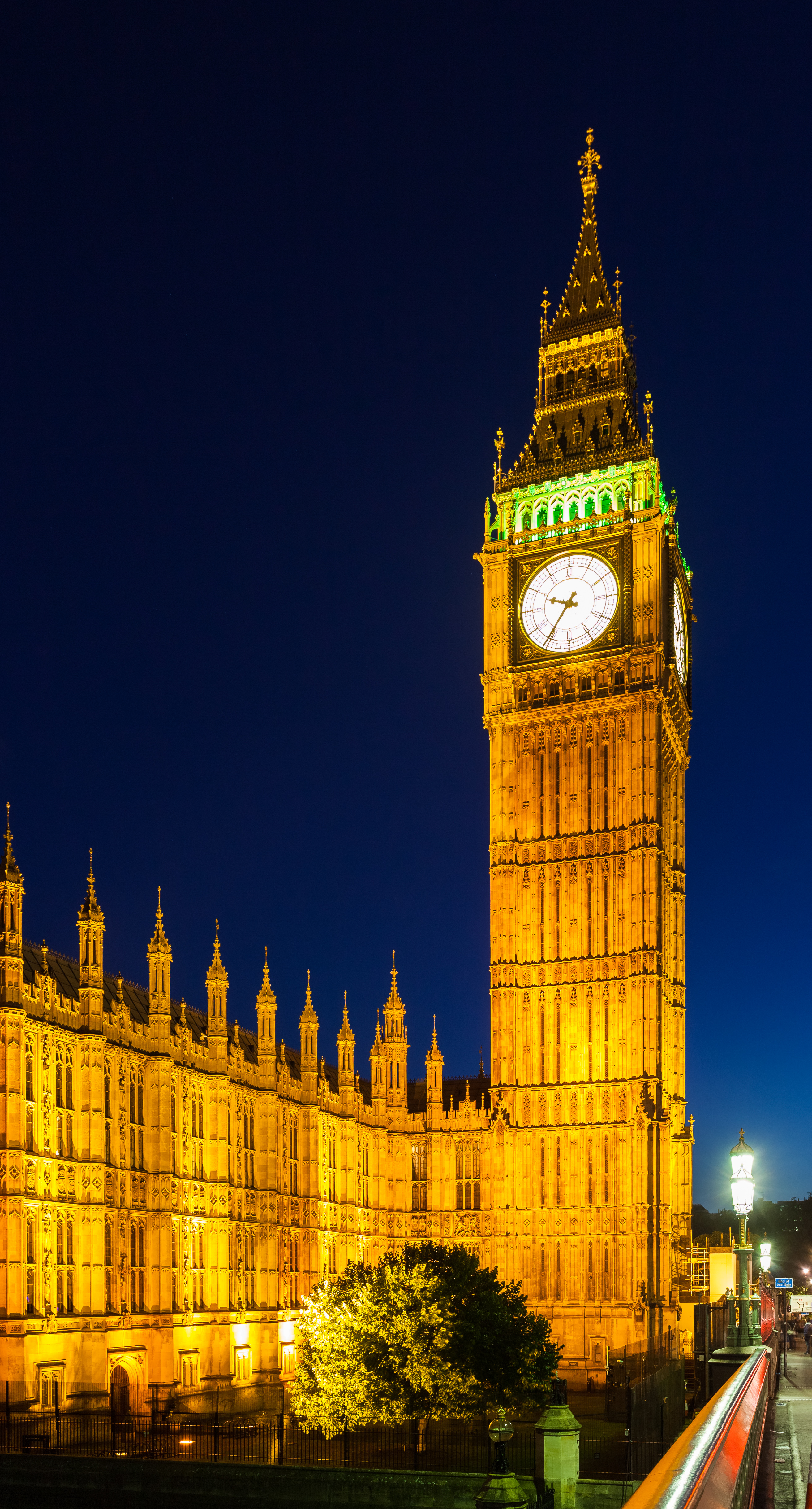 Big Ben, London, England